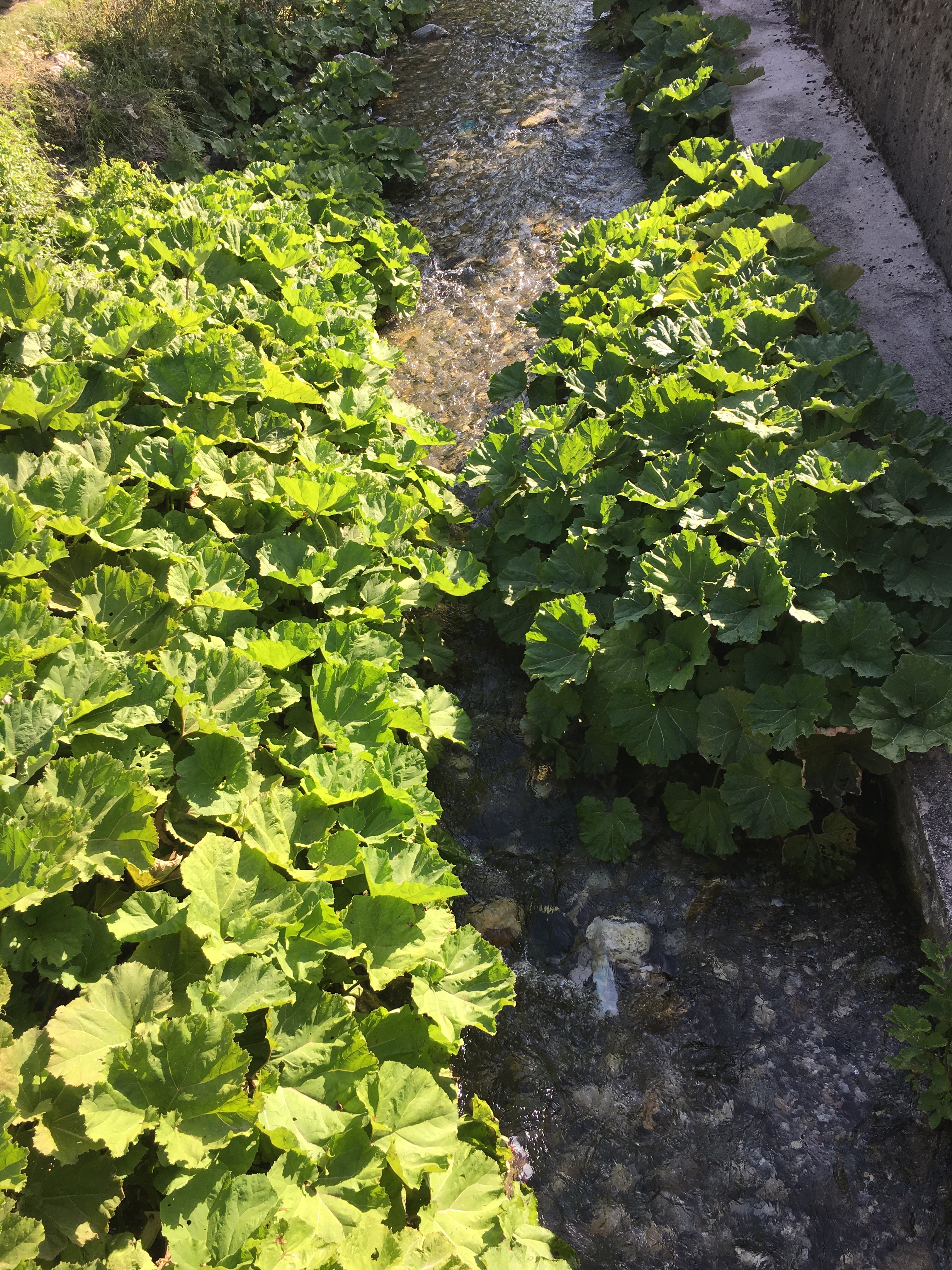 The flow of Piskupština River in the eponymous village